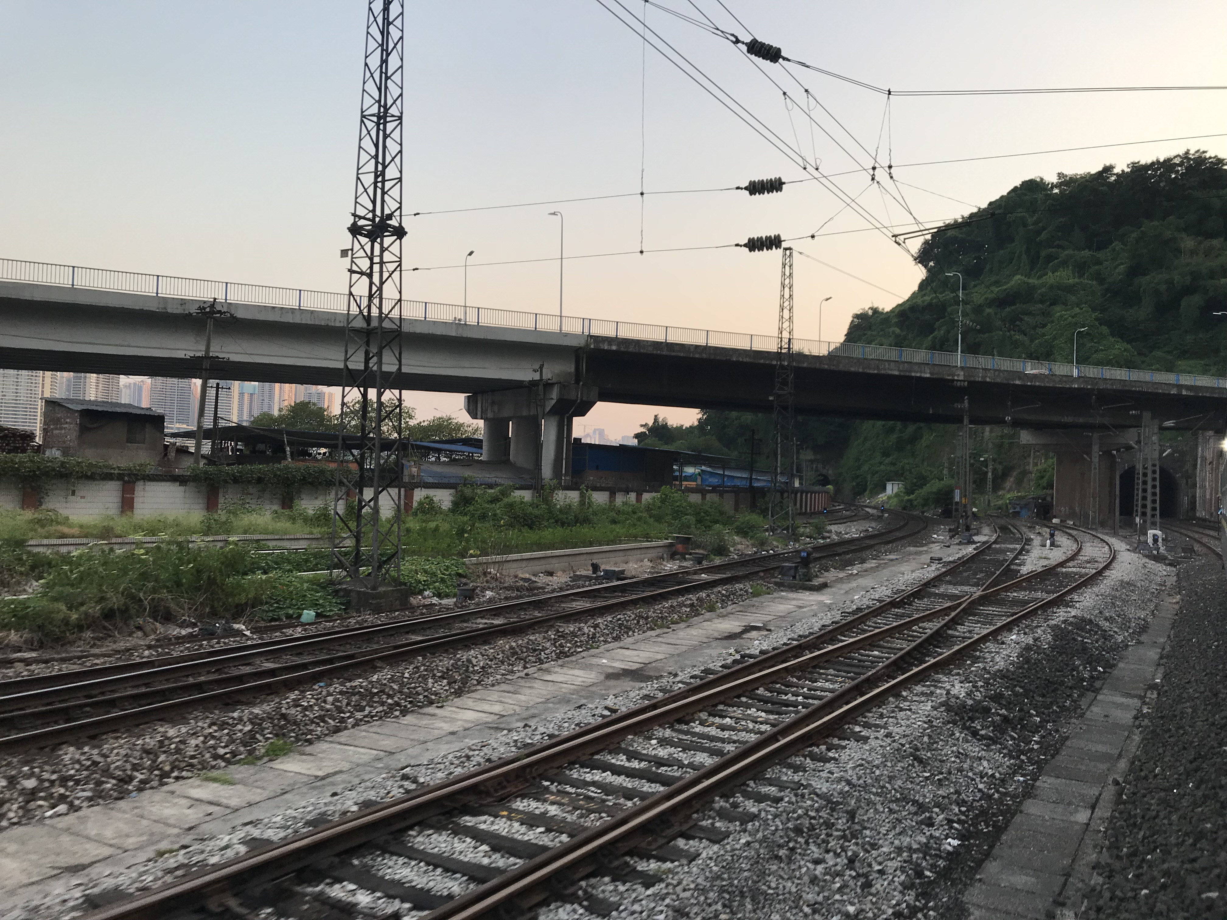 201908 Shunting Lines at Chongqing Station